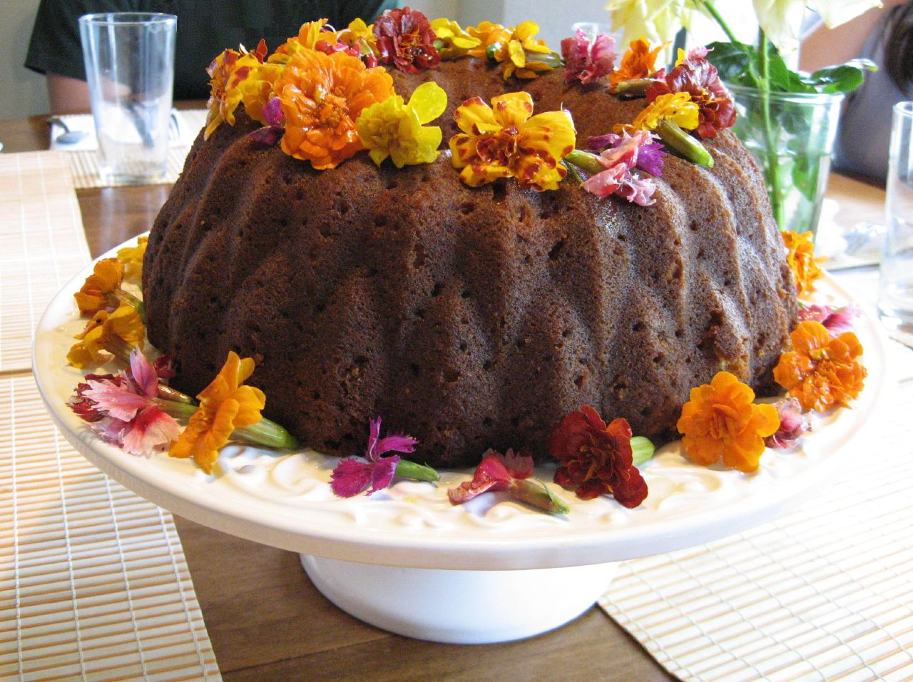 Original caption: Spring Flower Cake from Martha Stewart Living, March 2008. Vanilla-flavored bundt cake, glazed with orange syrup, served with a honey mousse and crystallized edible flowers.